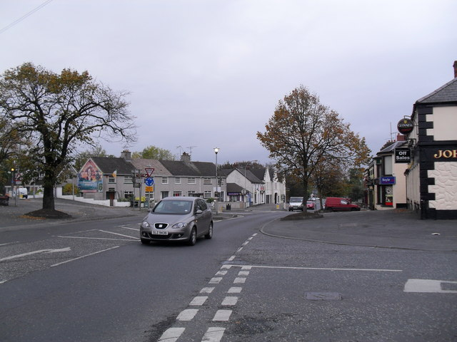 Main Street, Camlough The Main Street in this busy village, which acts as a gateway to much of South Armagh.